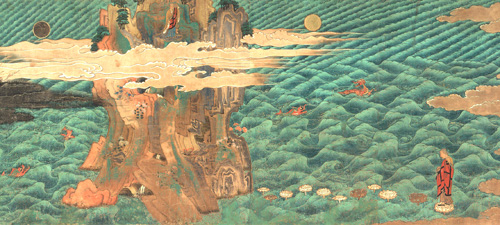 Scroll 4, section 1.